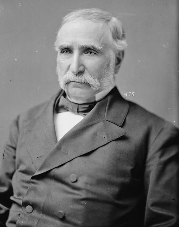 Chapin, Hon. C.W. of Mass.